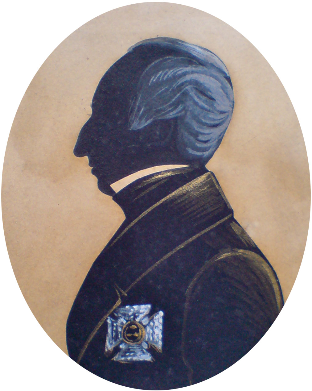 Lieutenant-General Sir John Cameron KCB (b. 3 Jan 1773, d. 23 Nov 1844), 9th of Culchenna, silhouette dated 15 March 1841, more at John Cameron (1773-1844). His brother was Captain Ewen Cameron, 43rd Foot, killed at Battle of the Côa, 24 July 1810.